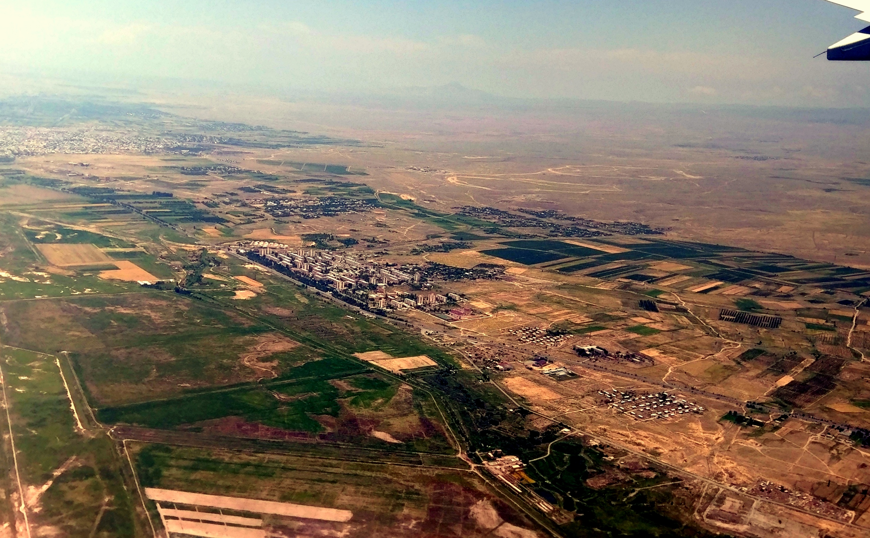 Ararat plain and Metsamor town from the plane, Armavir town and Mount Arteni in the background.